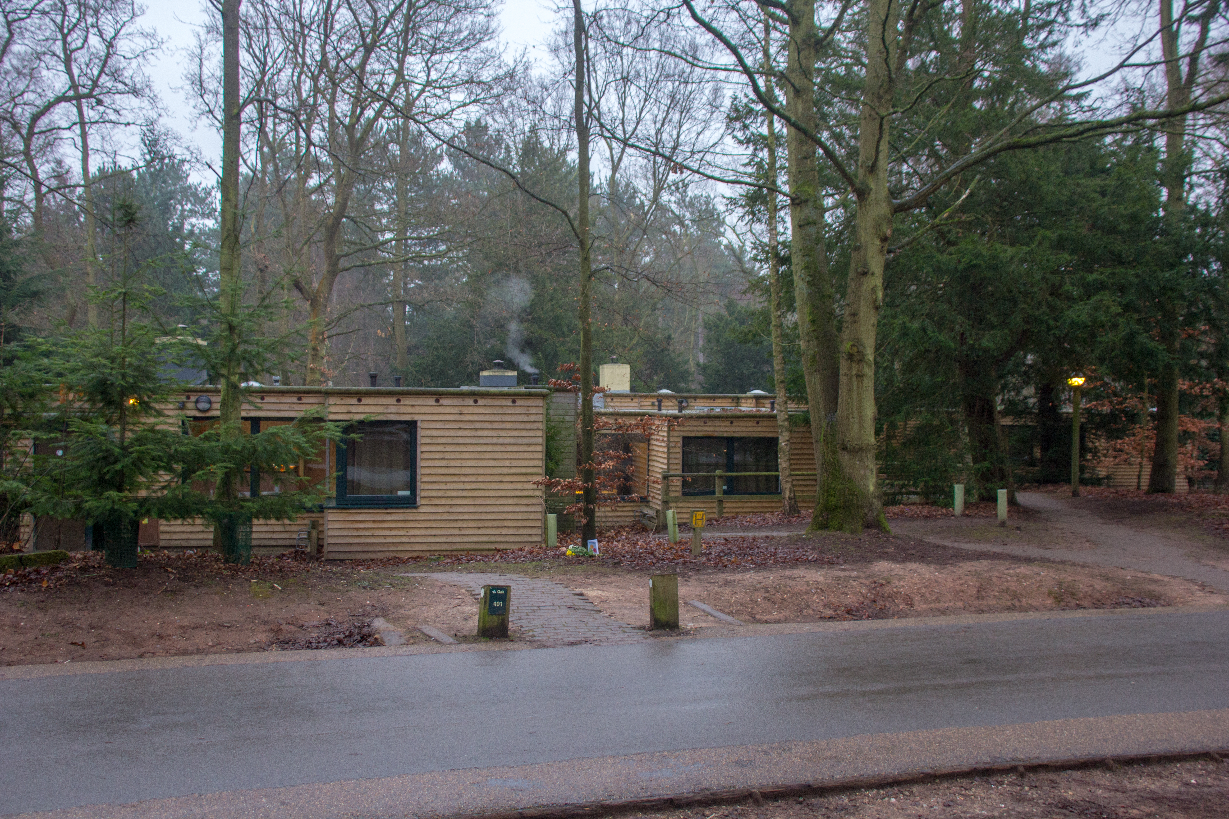 Center Parcs Sherwood Forest, UK